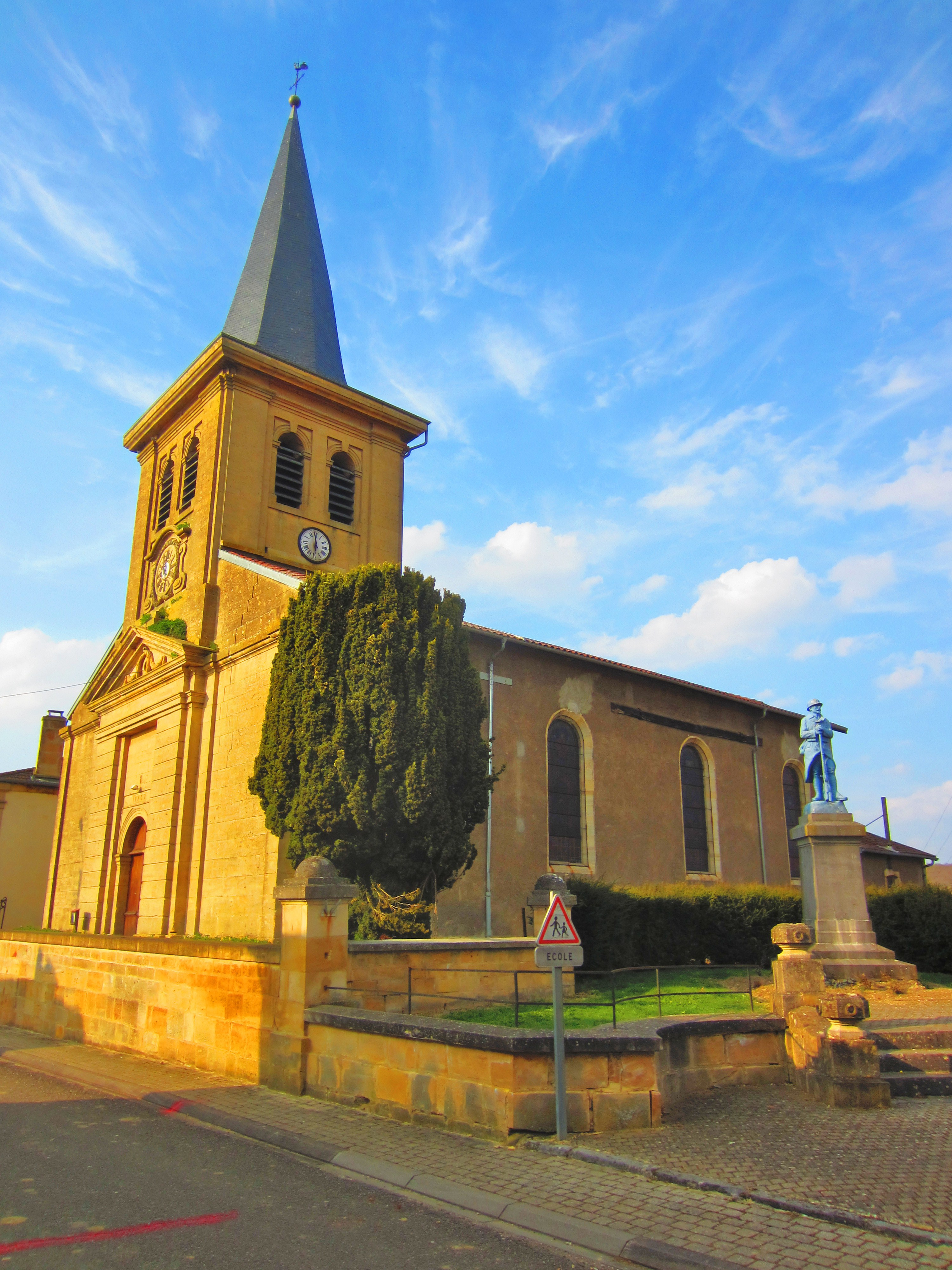 Merles Loison church